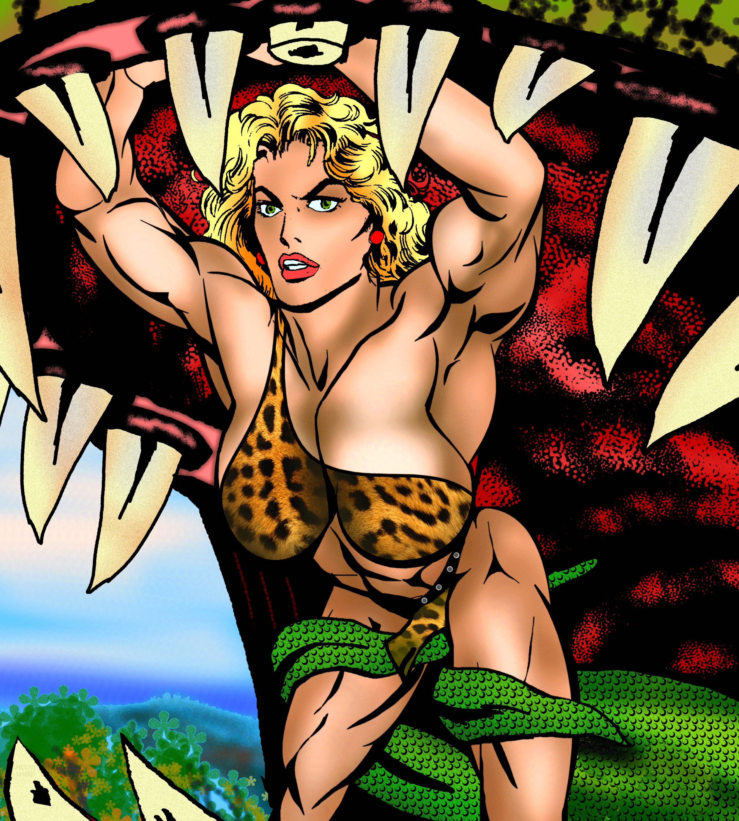 An example of lowbrow art, a comic book styled pinup by the artist IHCOYC, a/k/a Smerdis of Tlön, illustrating the use of pulp literature, white jungle goddess, bodybuilding, comic book stylings, and similar themes. Character 'Dragomirja' is original to the artist.